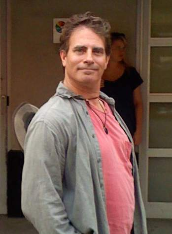 David Silverman in 2007 in New York, in front of The Daily Show theater. Cropped by User:Storkk, from Image:David Silverman in 2007.JPG